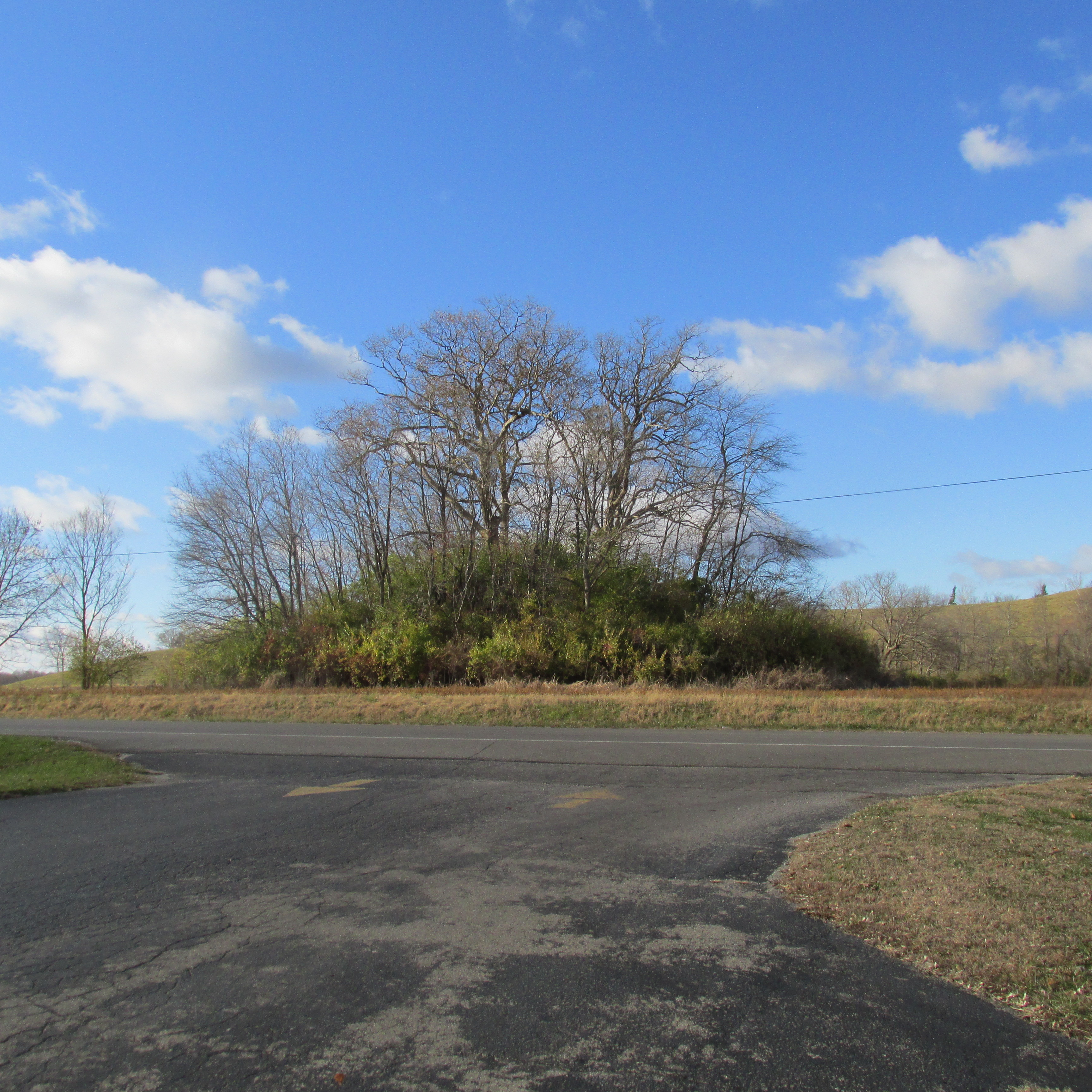 The Rockhold Mound located in Ross County, Ohio.